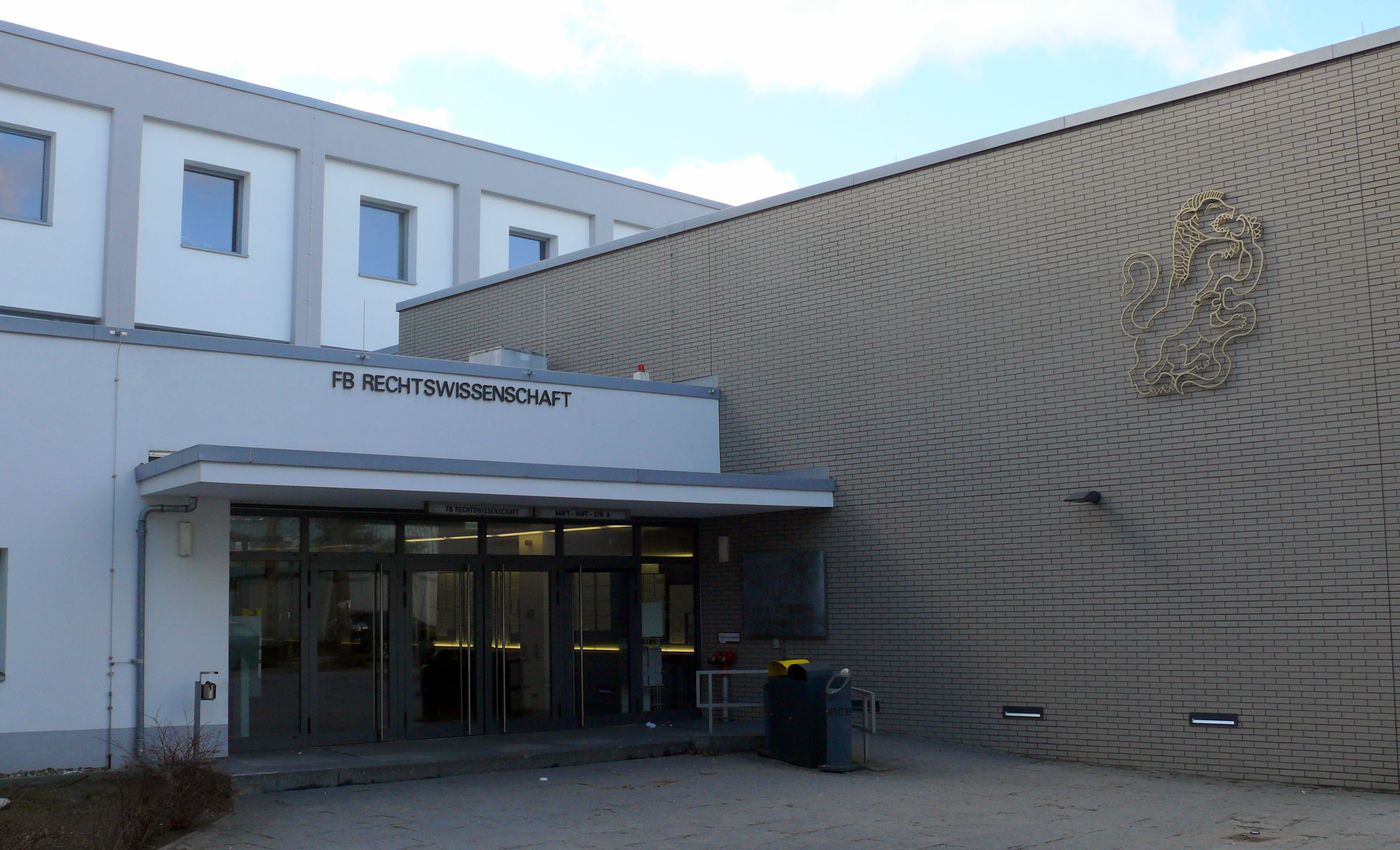 Berlin-Dahlem Van't-Hoff-Straße FB Rechtswissenschaft